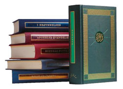 A selection of volumes in the norwegian series Verdens hellige skrifter, a norwegian series of more than 70 volumes of religious scriptures from all religions.